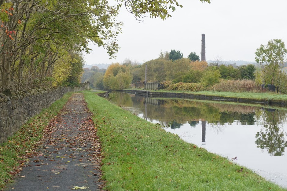 The straight Burnley Embankment with the brick chimney of Central Mill towering above